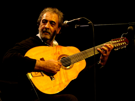 valencian folk musician Manolo Miralles performing live with Al Tall in Dénia